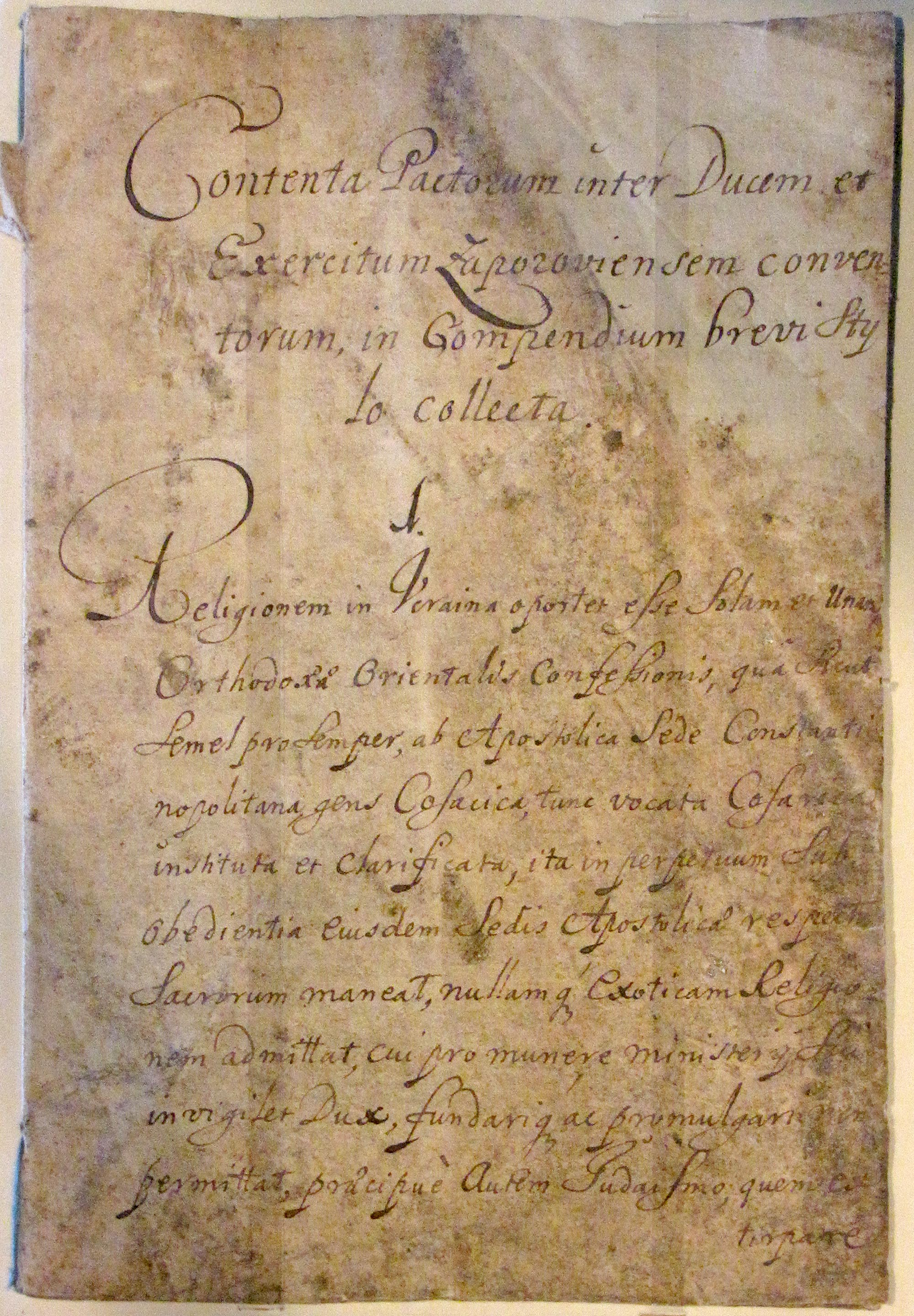 The first page of the Constitution of Hetman Pylyp Orlyk. Written in Bendery in April 1710. This copy, written in Latin by Pylyp Orlyk himself, is preserved in the Swedish National Archives, Stockholm.